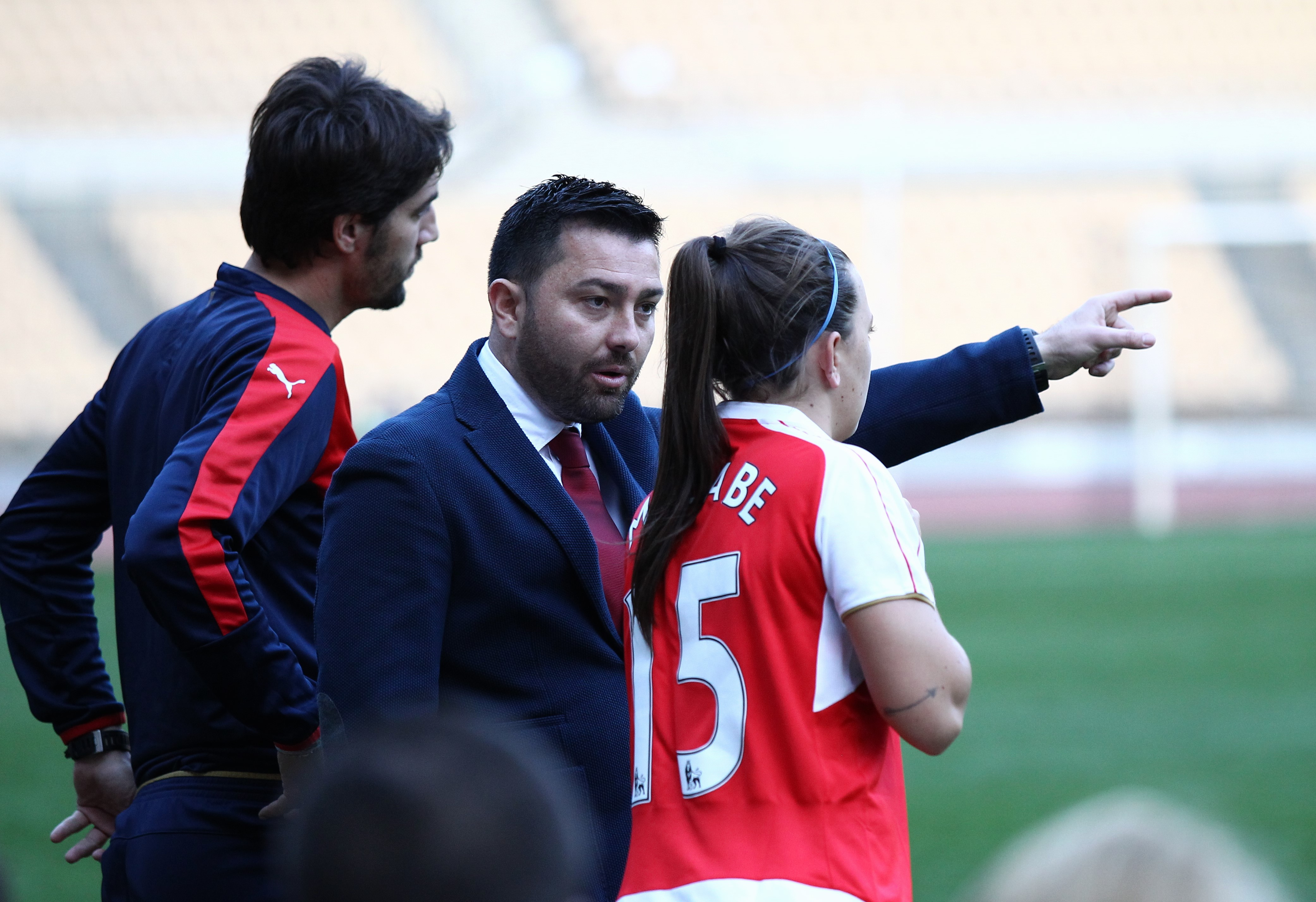 Arsenal Ladies manager Pedro Martinez Losa talks to Katie McCabe before she is substitueted on to make her first appearance.